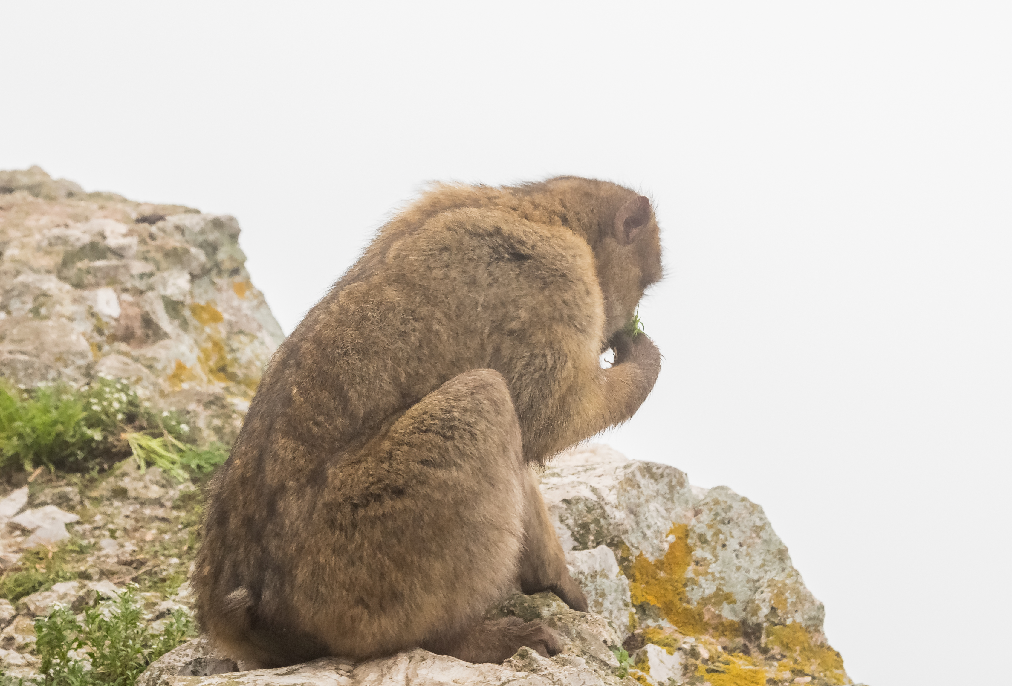 Gibraltar Barbary Macaque (Macaca sylvanus), Rock of Gibraltar